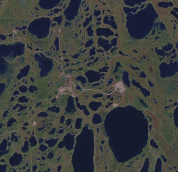 NASA Landsat 7 view of the Fort Churchill launch site in northern Manitoba, Canada.